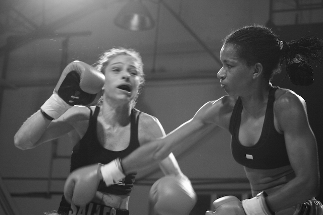 The women's boxing match for the vacant Brazilian super bantamweight title between Adriana Salles (on the left) and Renata Cristina Dos Santos Ferreira in Sao Paulo, Sao Paulo, Brazil on September 30, 2006